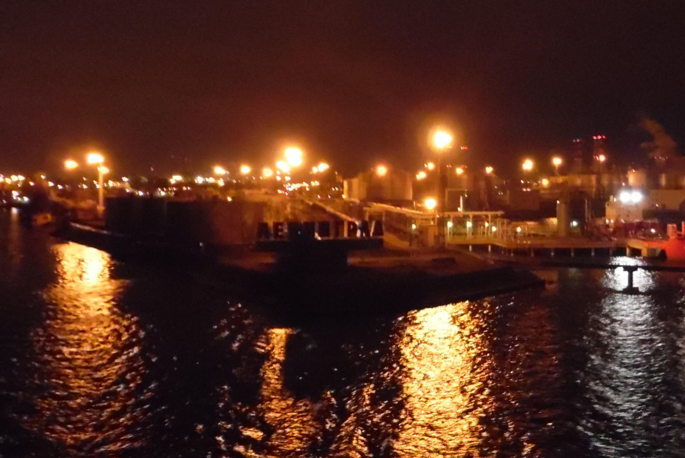 The sea entrance of St. Peterburgs sea port at night